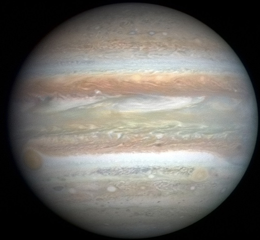 The New Horizons Long Range Reconnaissance Imager (LORRI) took this 2-millisecond exposure of Jupiter at 04:41:04 UTC on January 24, 2007. The spacecraft was 57 million kilometers (35.3 million miles) from Jupiter, closing in on the giant planet at 41,500 miles (66,790 kilometers) per hour. At right are the moons Io (bottom) and Ganymede; Ganymede's shadow creeps toward the top of Jupiter's northern hemisphere. Two of Jupiter's largest storms are visible; the Great Red Spot on the western (left) limb of the planet, trailing the Little Red Spot on the eastern limb, at slightly lower latitude. The Great Red Spot is a 300-year old storm more than twice the size of Earth. The Little Red Spot, which formed over the past decade from the merging of three smaller storms, is about half the size of its older and "greater" counterpart.